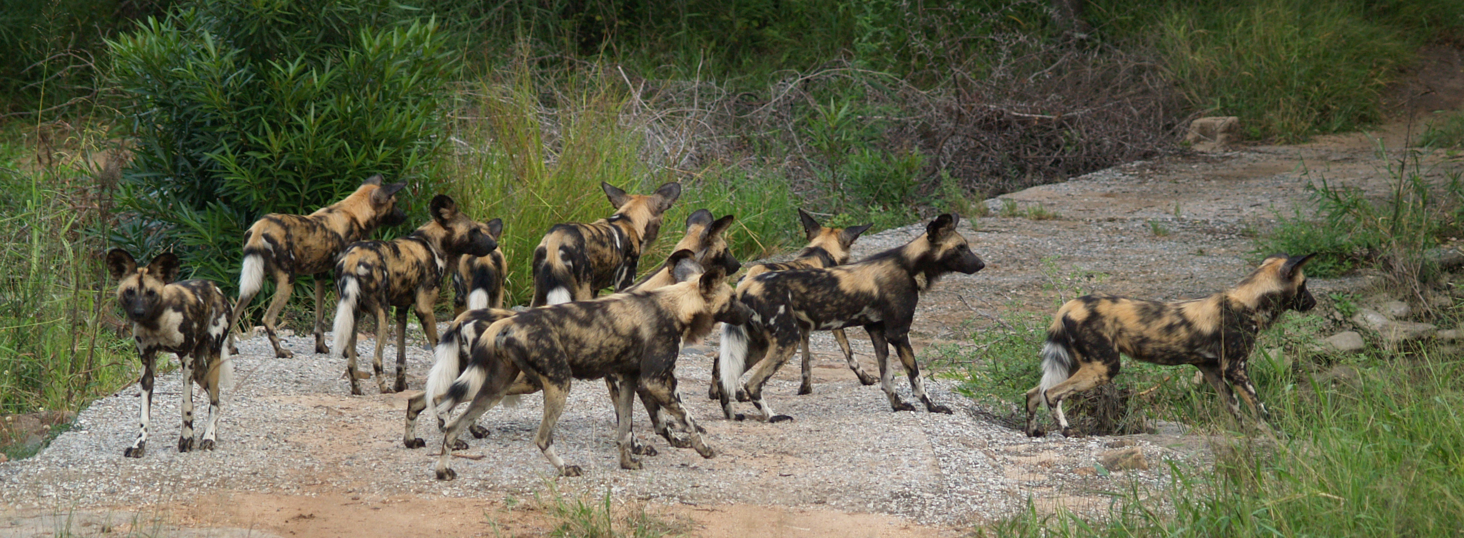 African Wild Dogs - Kruger National Park - South Africa (Sabi Sabi Game Reserve)